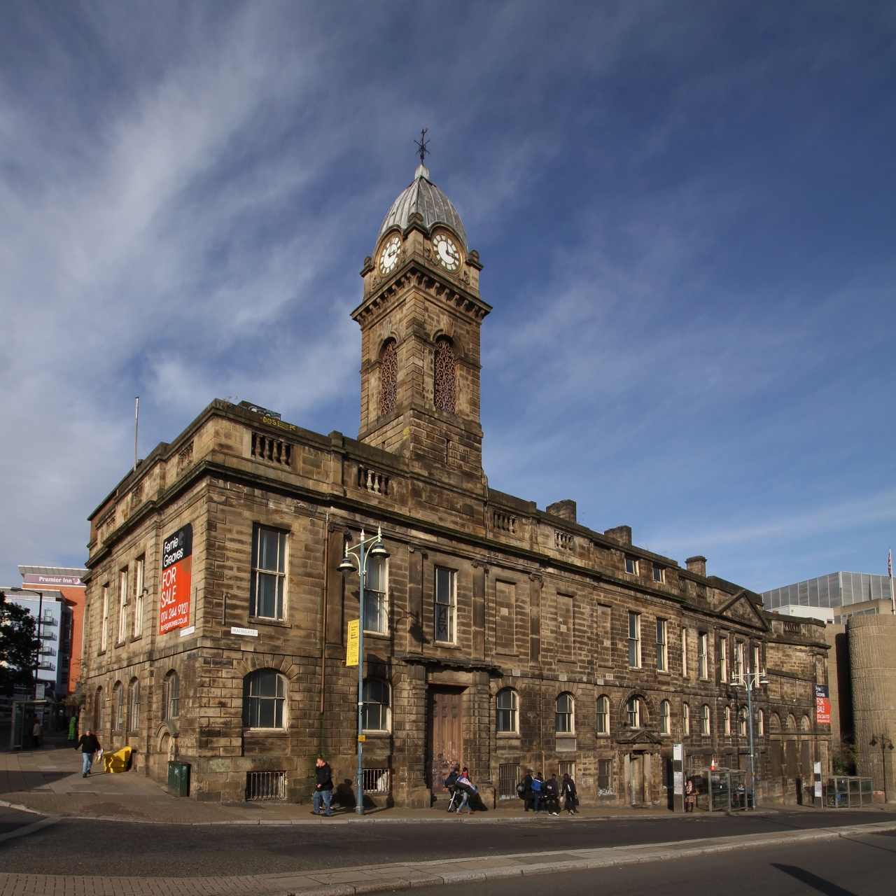 Former Town Hall at the junction of Waingate (right) and Castle Street (left), Sheffield, South Yorkshire, seen from the east